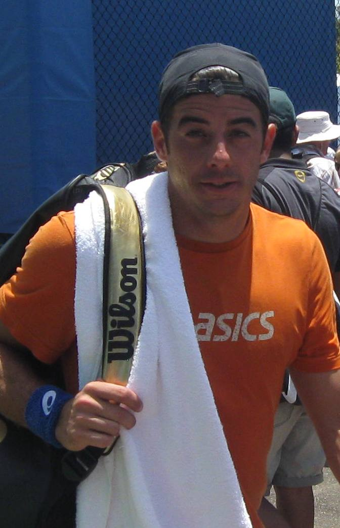 Frederico Gil after training session